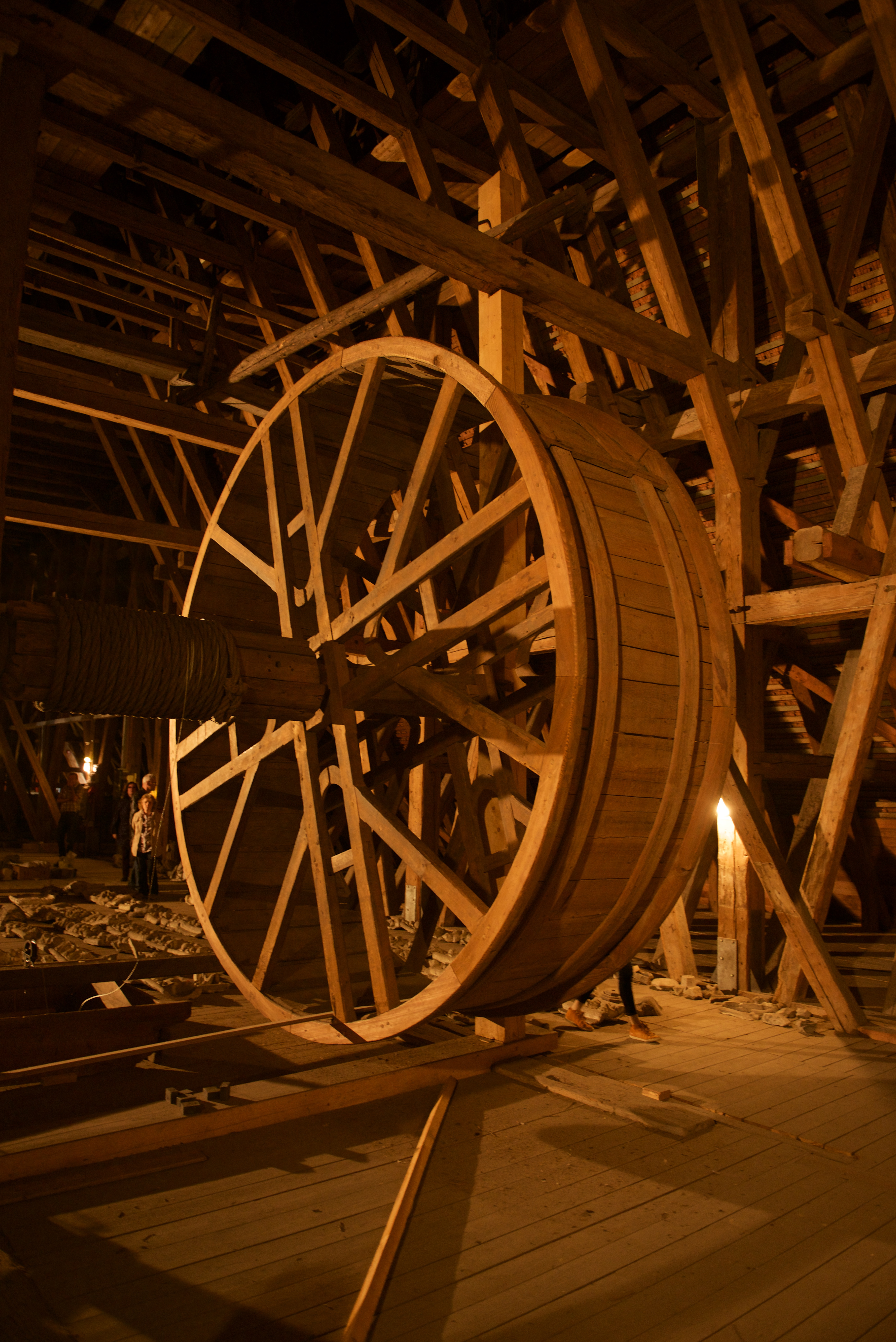 Baukran auf dem Dachstuhl des Schwäbisch Gmünder Münsters